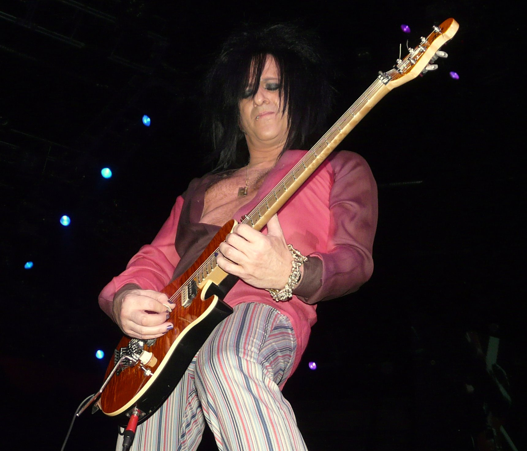 Steve Stevens on August 13, 2008 at the MTS Centre in Winnipeg, Manitoba, Canada.